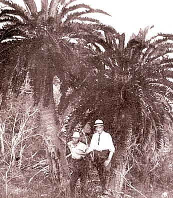 Two of the remaining stems of Encephalartos woodii at Ongoye Forest. The smaller one on the right is presumably the one which was collected in 1916 to be moved to Pretoria as James Wylie said when returning from the 1907 expidition that the larger of the two stems that were left behind was badly mutilated and he did not expect it to survive (see damaged stem on the left of the picture).